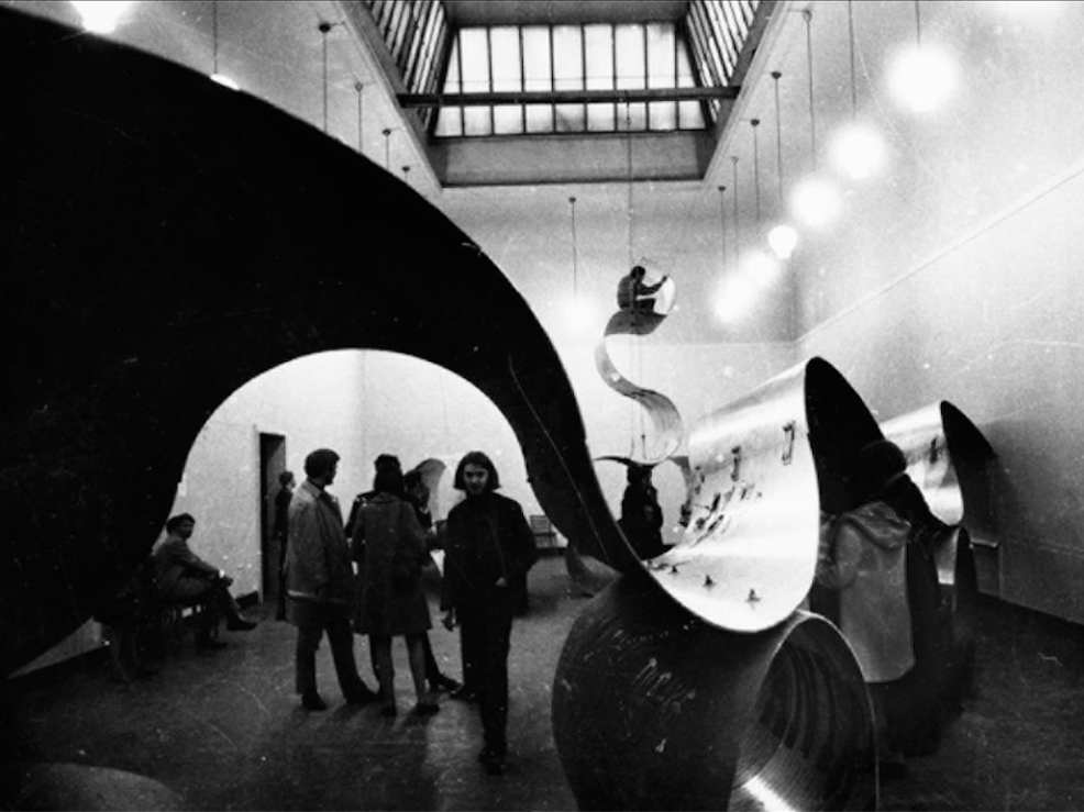 From Siri Aurdals exhibition ENVIRONMENT. Kunstnernes Hus in Oslo, may 1969.